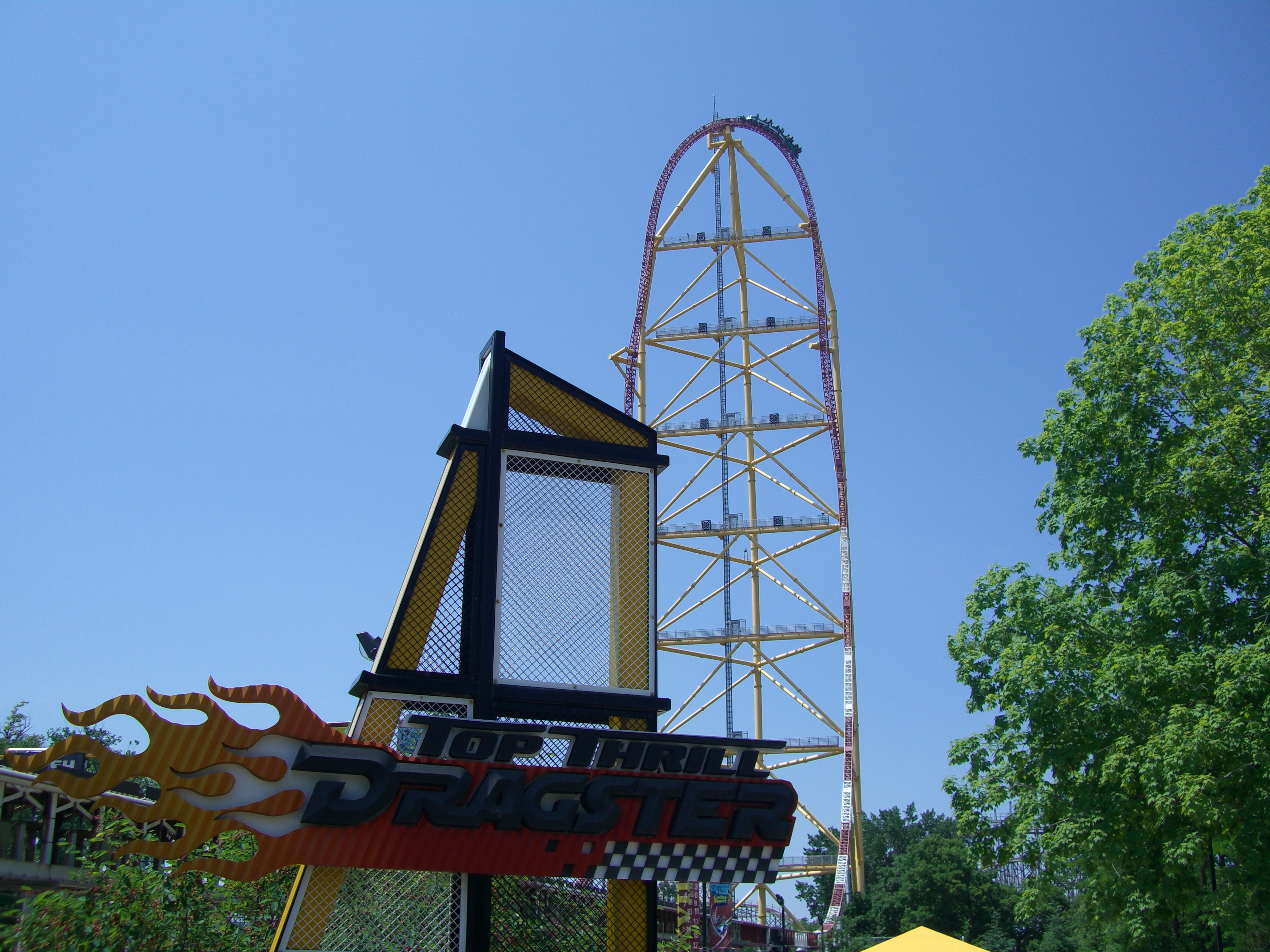 Top Thrill Dragster at Cedar Point The only requirement of this license is that you credit me, otherwise it is free.